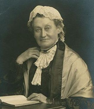 Dr Alice Vickery Drysdale, the first British woman to qualify as chemist and druggist.